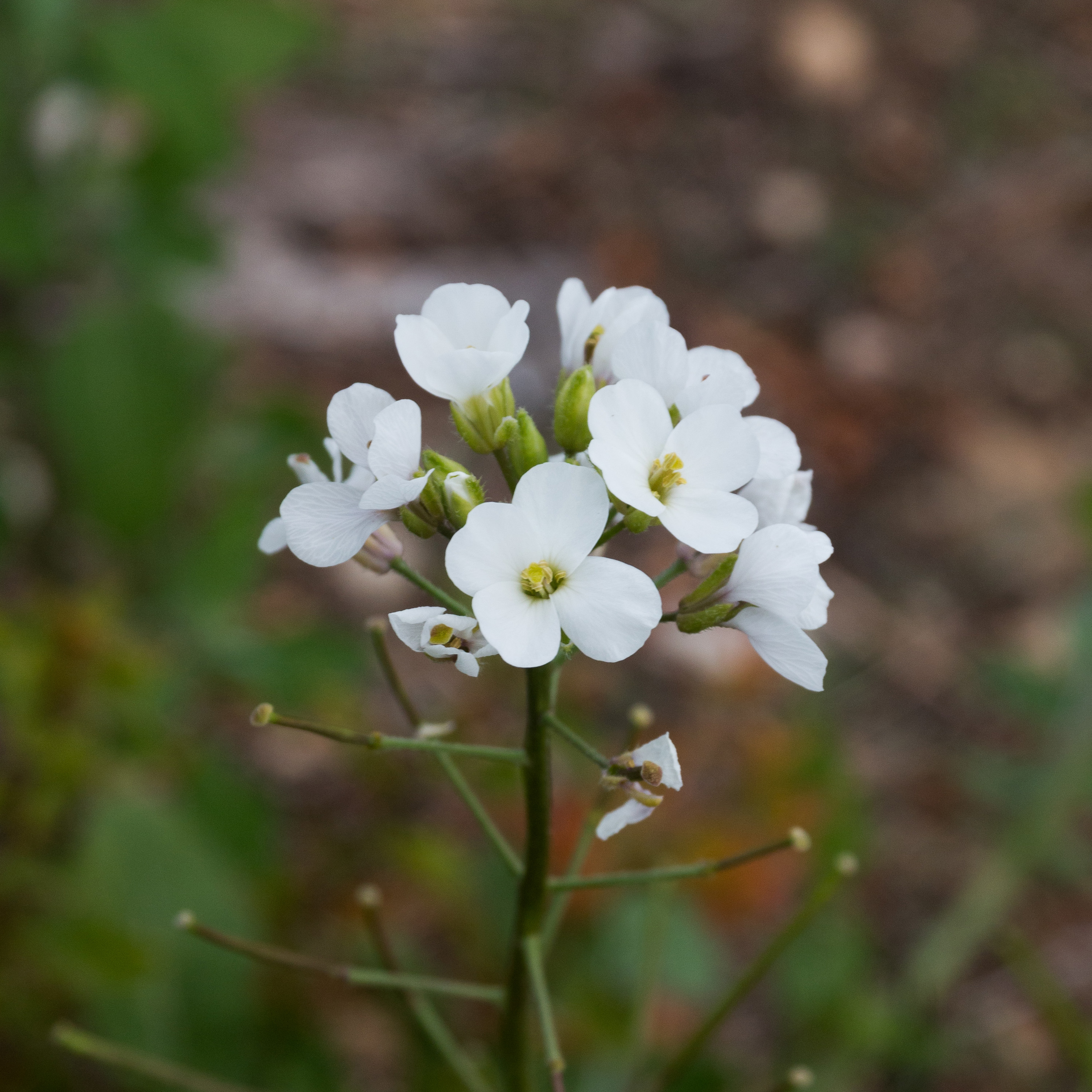 Stem of a Diplotaxis erucoides